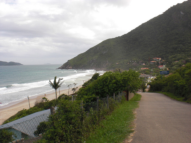 Solidão Beach License on Flickr (2011-01-24): CC-BY-2.0 Flickr tags: floripa, solidão, praia, beach, florianopolis